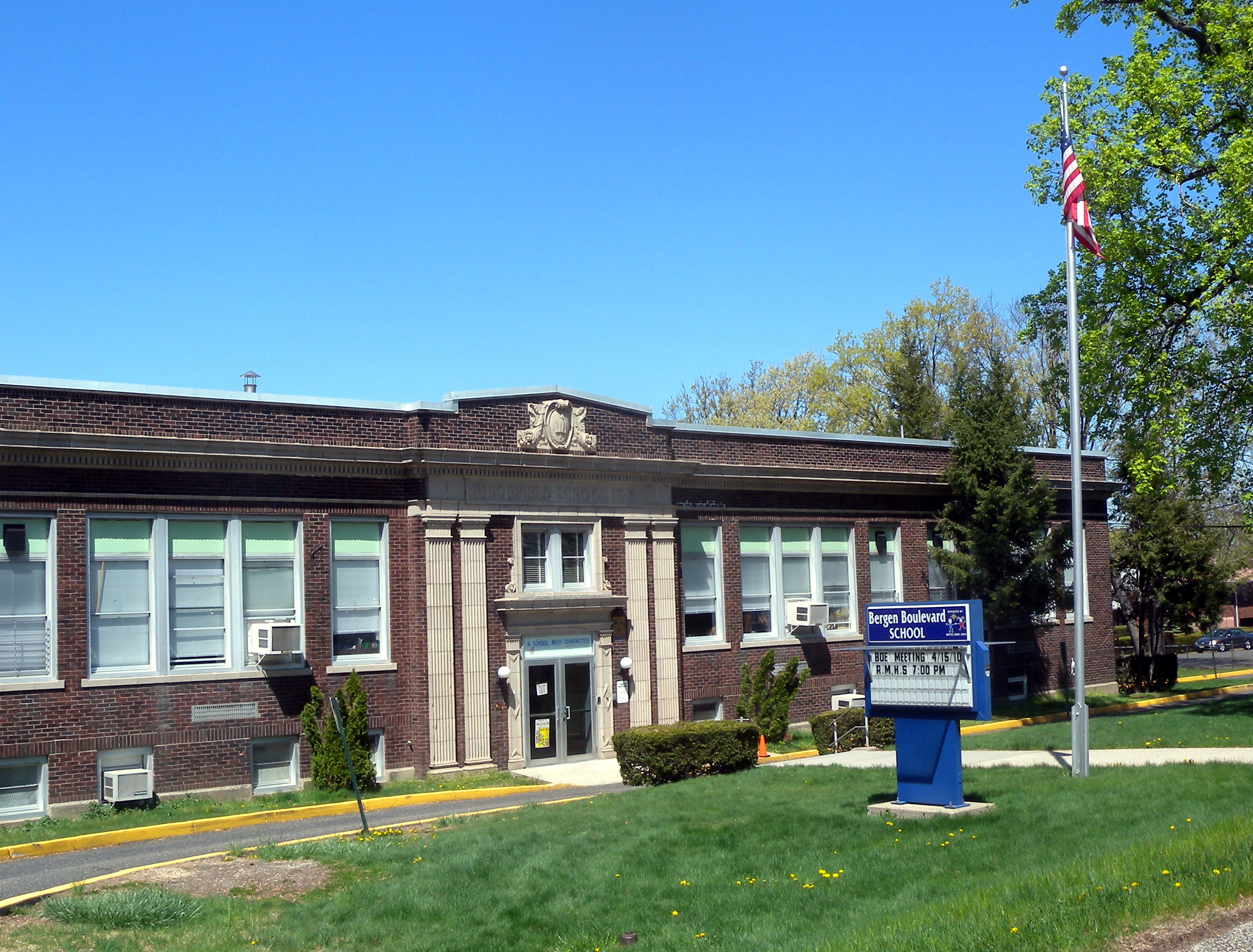 Looking north at Bergen Blvd School on a sunny midday.